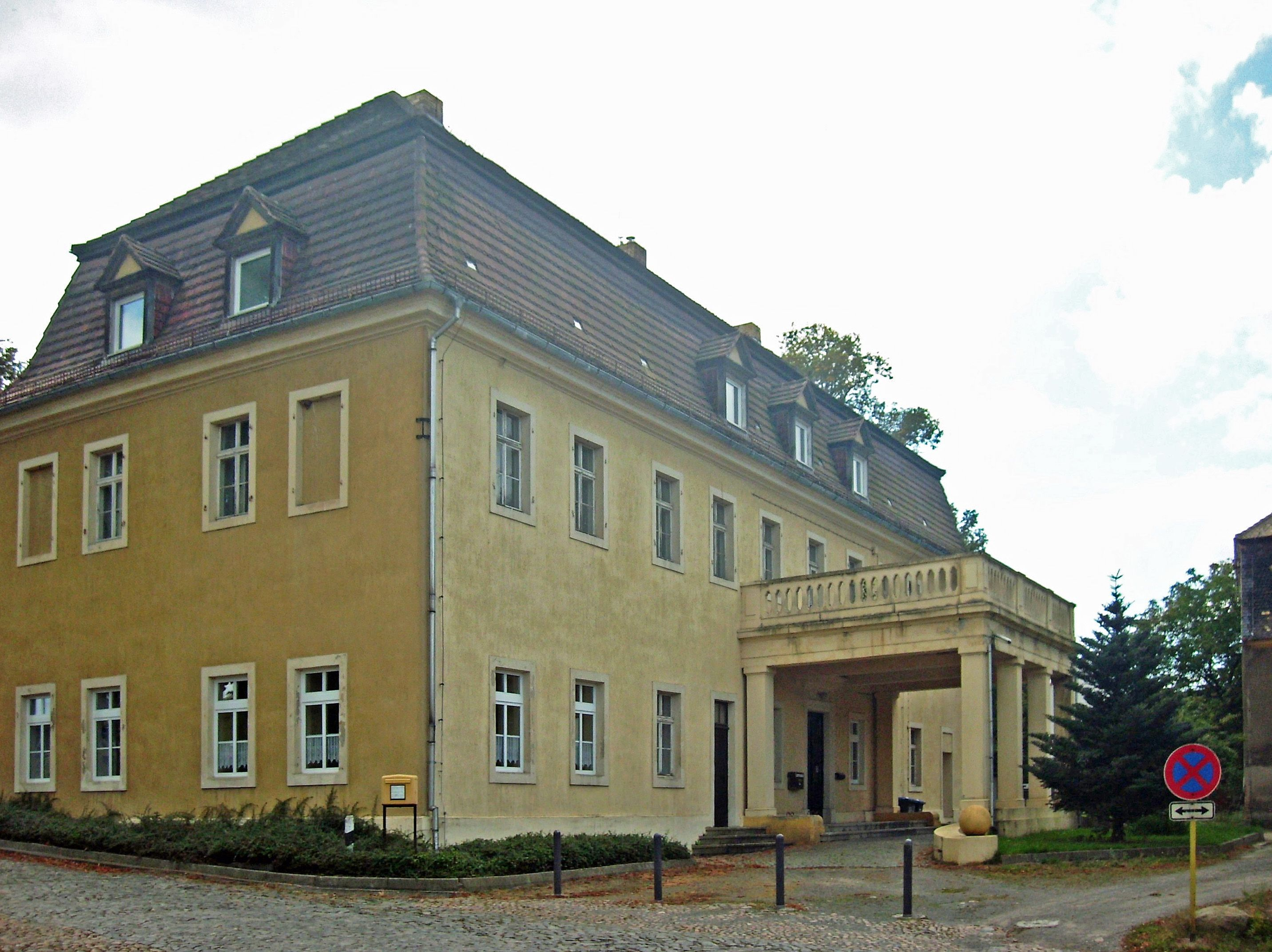 Manor (also called castle) in Gotha (Jesewitz, Nordsachsen district, Saxony)